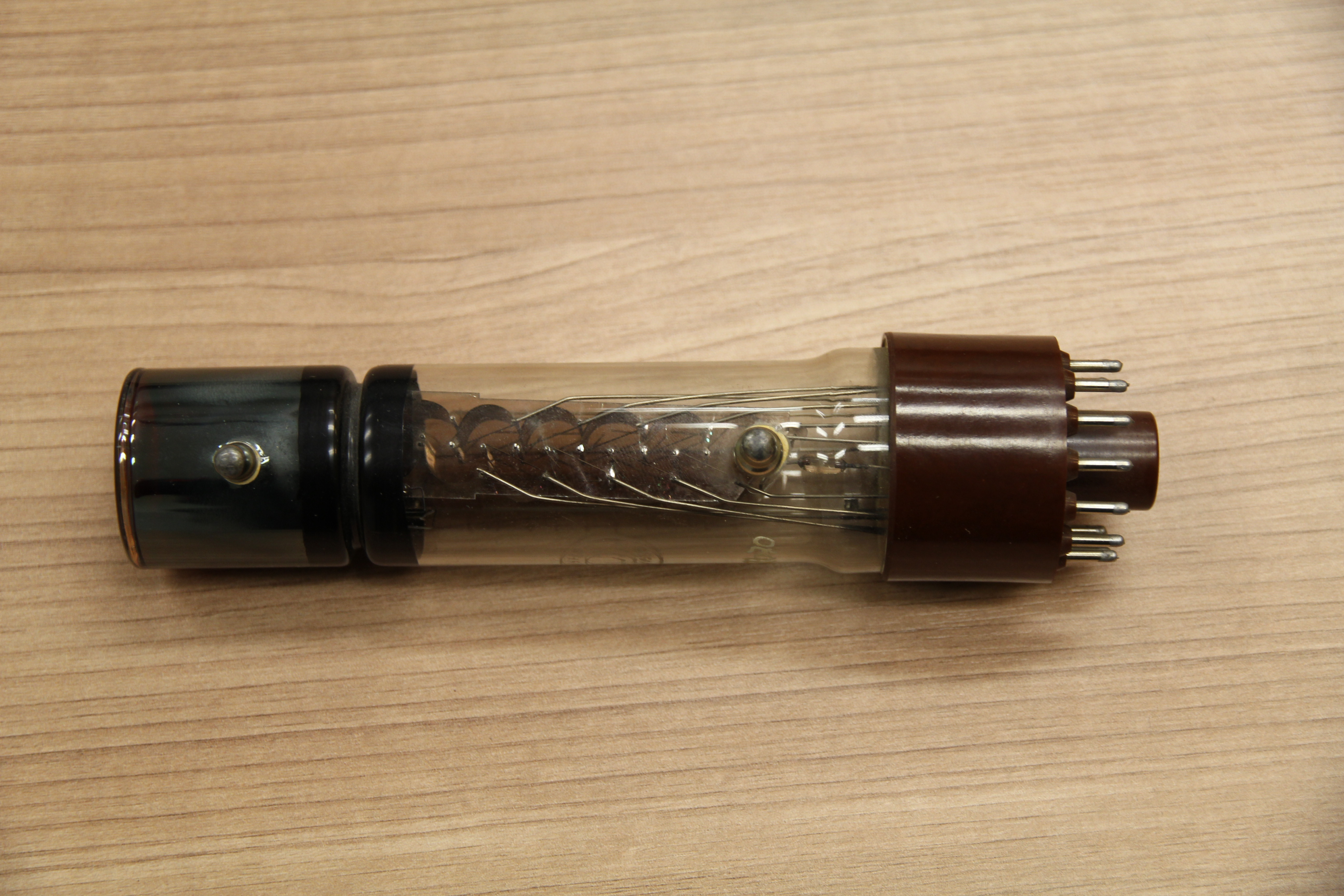 Photomultiplier